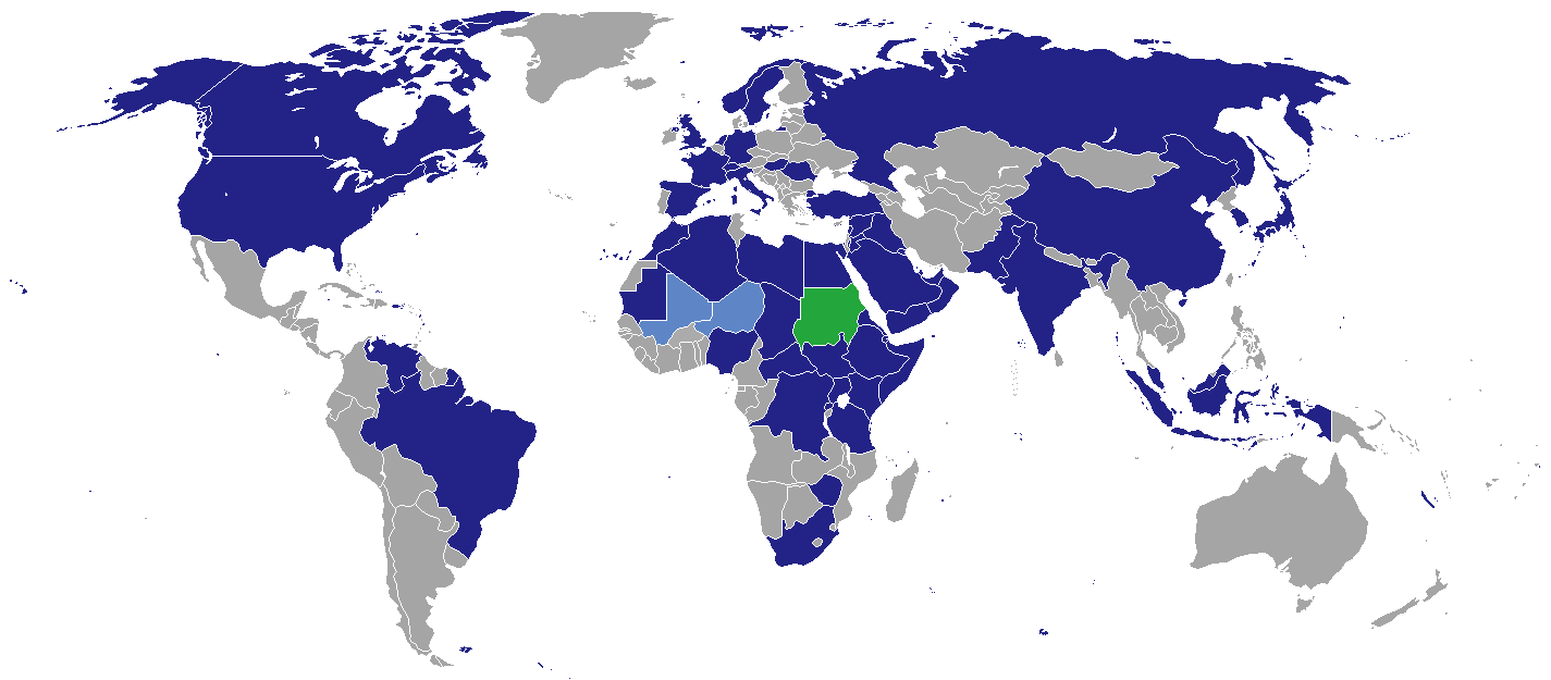 Map of diplomatic missions in Sudan